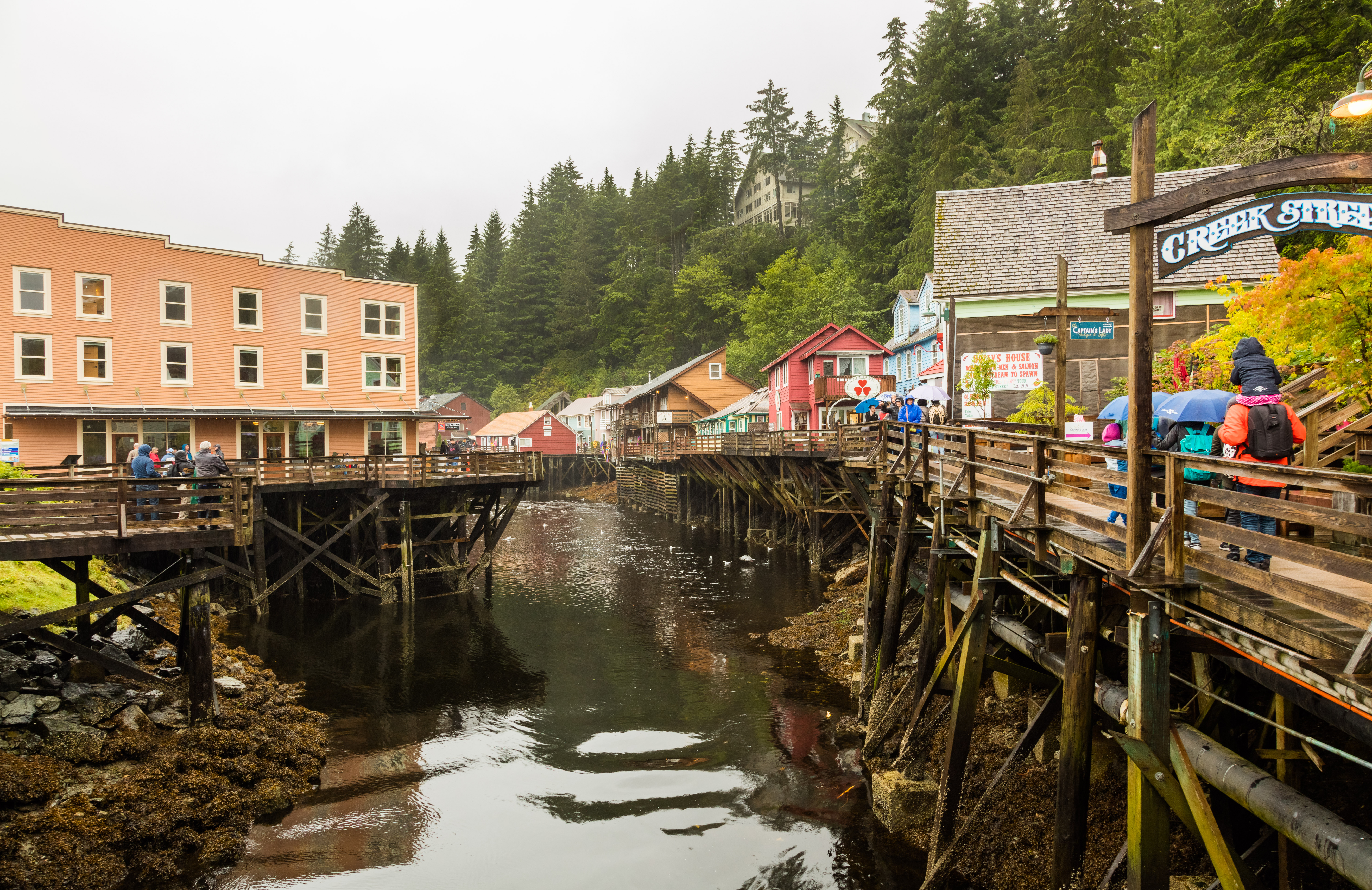 Historic Creek St, Ketchikan, Alaska, United States